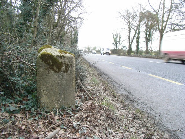 Milestone on the N2 at Flemingstown, Co. Meath. Once the moss and leaf litter were removed it was revealed that Slane, Carrickmacross and Collon are respectively 5, 21 and 9 miles distant. These are Irish miles, so in "modern" miles it's more like 6, 30 and 12. Located 6857ft from the next milestone to the south 1034388, which is rather more than the 6720ft an Irish mile is supposed to be.